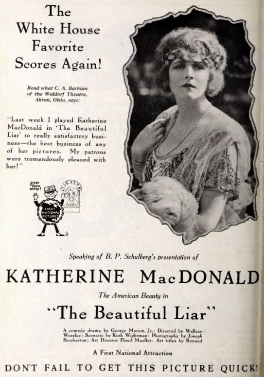 Advertisement for the American comedy film The Beautiful Liar (1921) with Katherine MacDonald, on page 32 of the March 4, 1922 Exhibitors Herald.